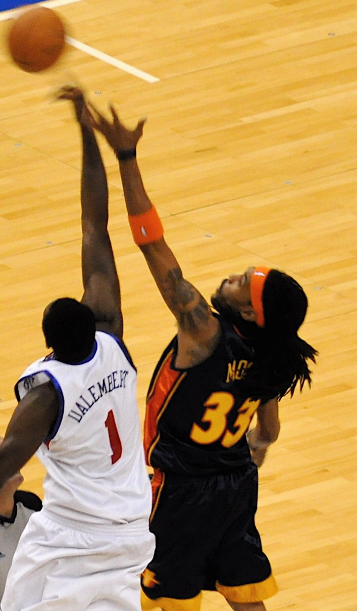 Samuel Dalembert and Mikki Moore compete for a jump ball.